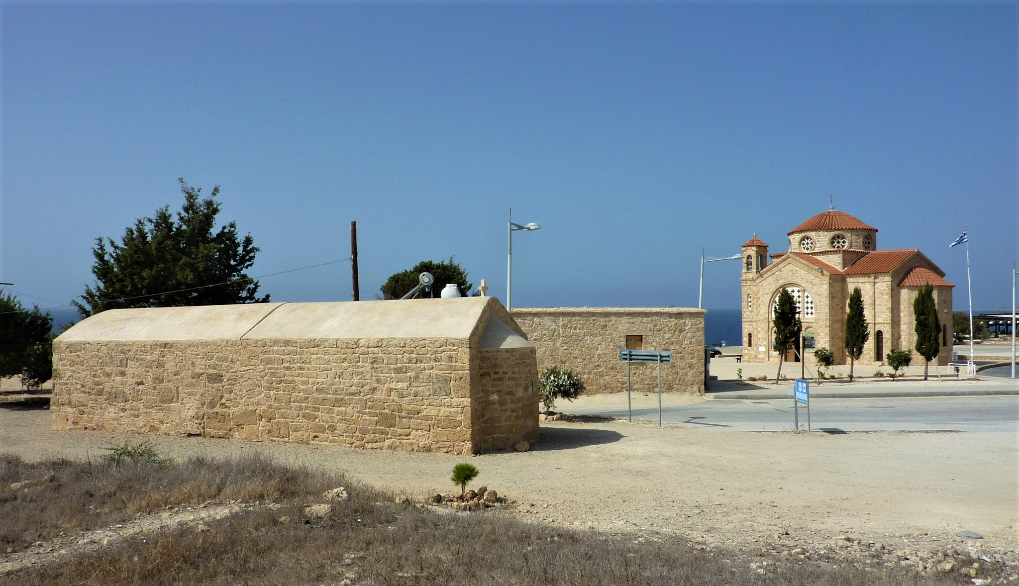 Byzantine church of Agios Georgios, Peyia. New church of Agios Georgios in the background.